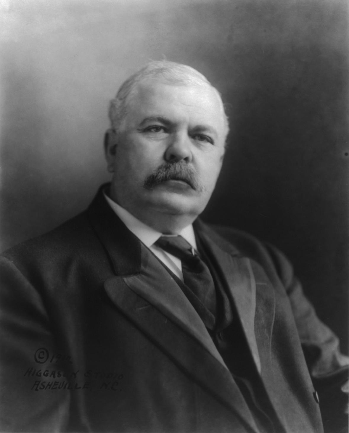 Jeter Connelly Pritchard, U.S. Senator from North Carolina (1895 - 1903)